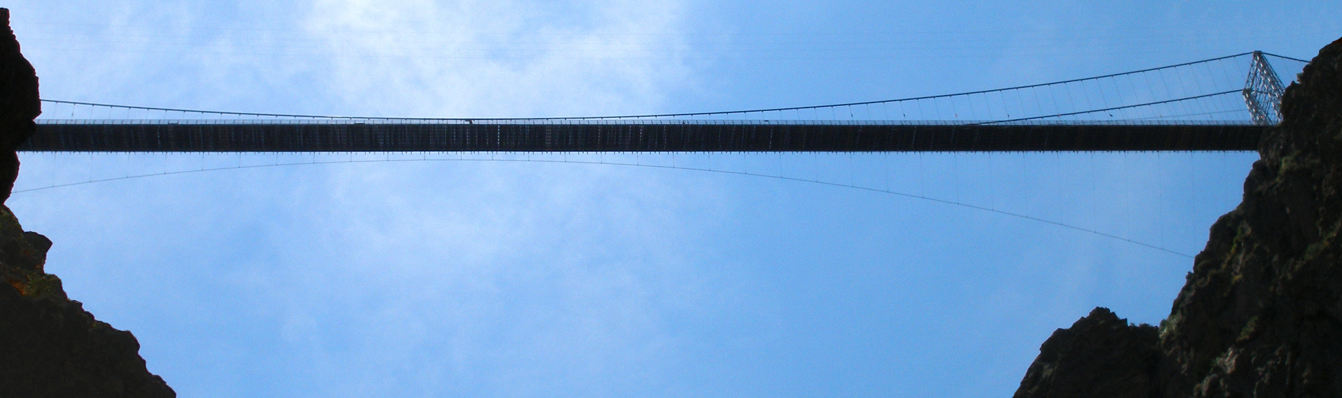 Royal Gorge Bridge, Colorado, USA, from Arkansas River